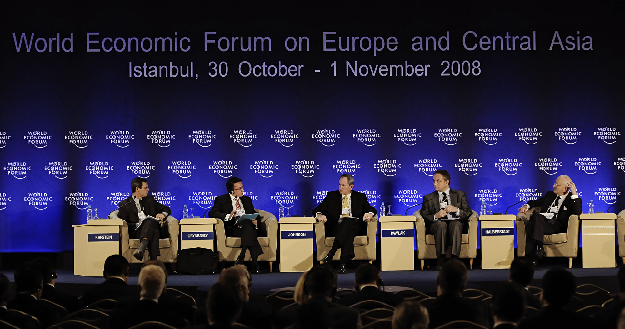 ISTANBUL/TURKEY, 31OCT08 - Participants at the plenary Session "Resource Flashpoints: Managing Water and Energy Securty" at the World Economic Forum on Europe and Central Asia in Istanbul, 30 October - 1 November 2008. Copyright World Economic Forum ( by Serkan Edeleklioglu